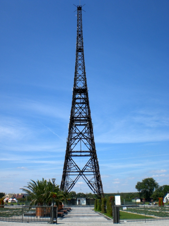 The Gliwice radio tower is the tallest wooden structure in Europe. On 31 August 1939, in the Gleiwitz incident, Nazi forces staged a provocation at the tower which was used to justify military action against Poland in the outbreak of World War II